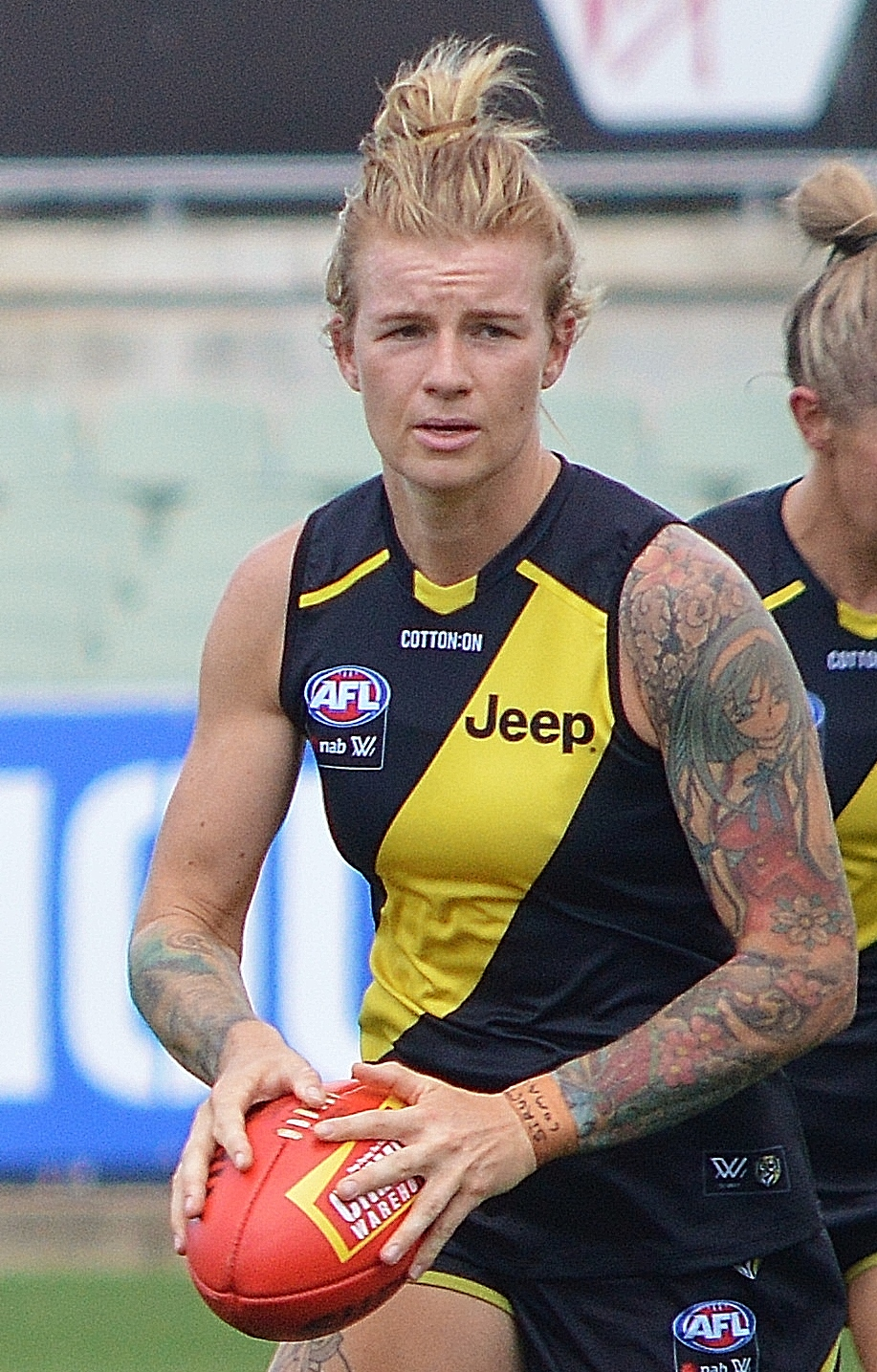 Phoebe Monahan with Richmond during the round 3, 2020 AFL Women's match against North Melbourne at Ikon Park.